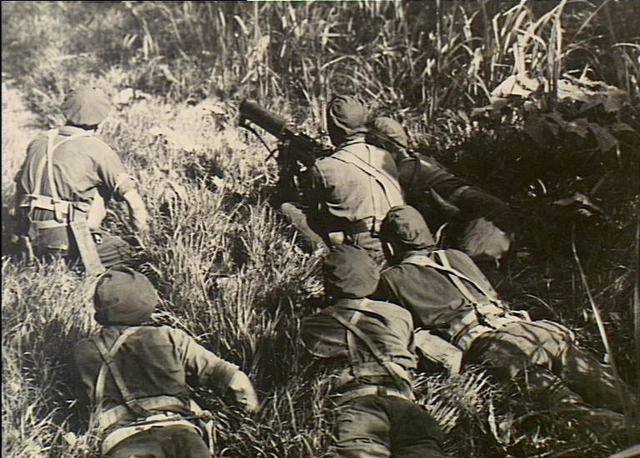 An Australian Vickers machine gun team from the 37/52nd Infantry Battalion on Karkar Island, New Guinea, on 4 June 1944